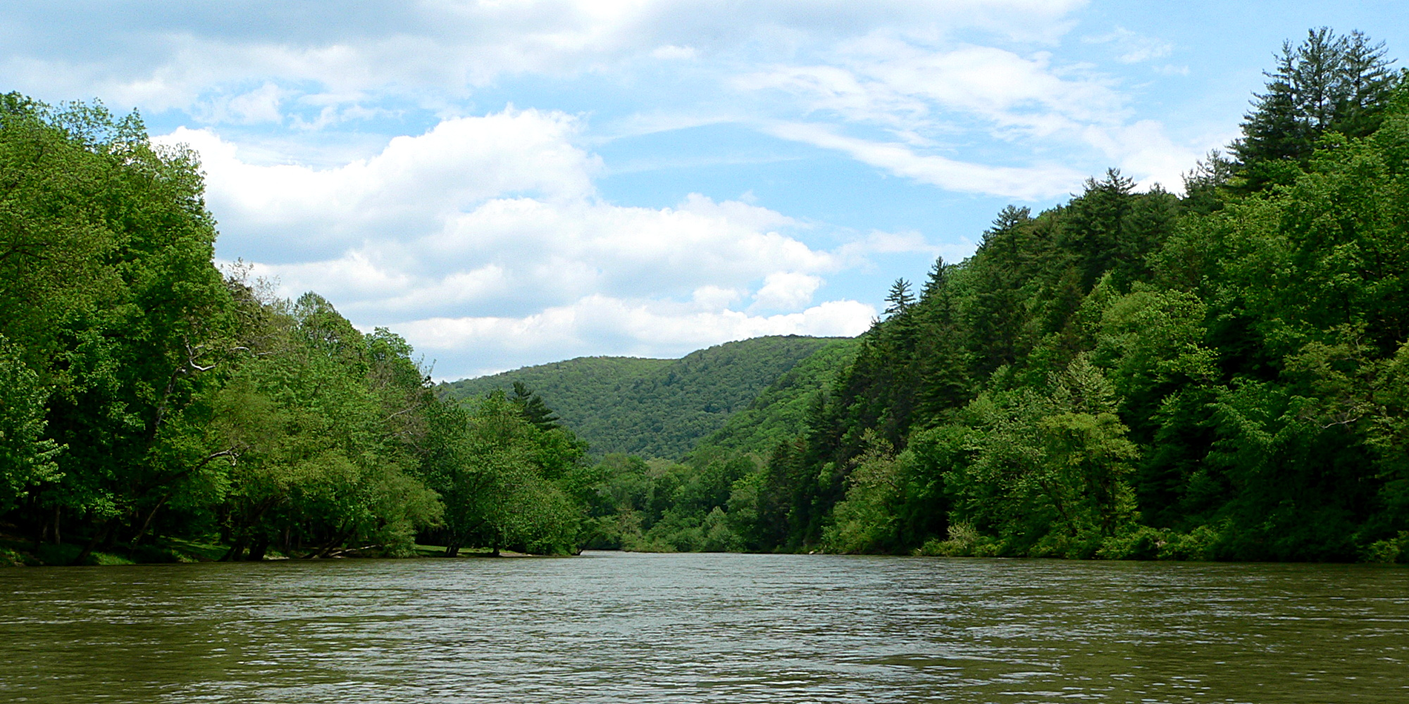 The Greenbrier River, looking upstream from just below the community of Anthony, and the confluence with Anthony Creek at Gunpowder Ridge.Photo taken from the cockpit of a kayak with a Panasonic Lumix DMC-FZ20 in Greenbrier County, WV, USA.